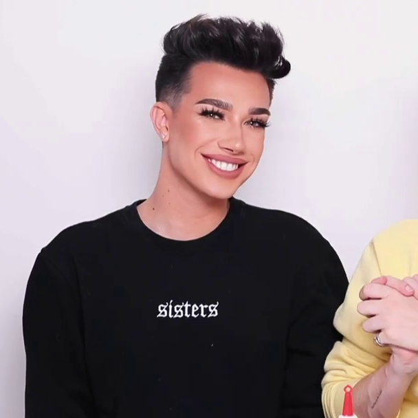 James Charles appearing in Lone Fox's YouTube Video, "DIY CHALLENGE with James Charles!" from July 2019.